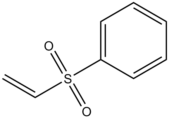 phenyl vinyl sulfone